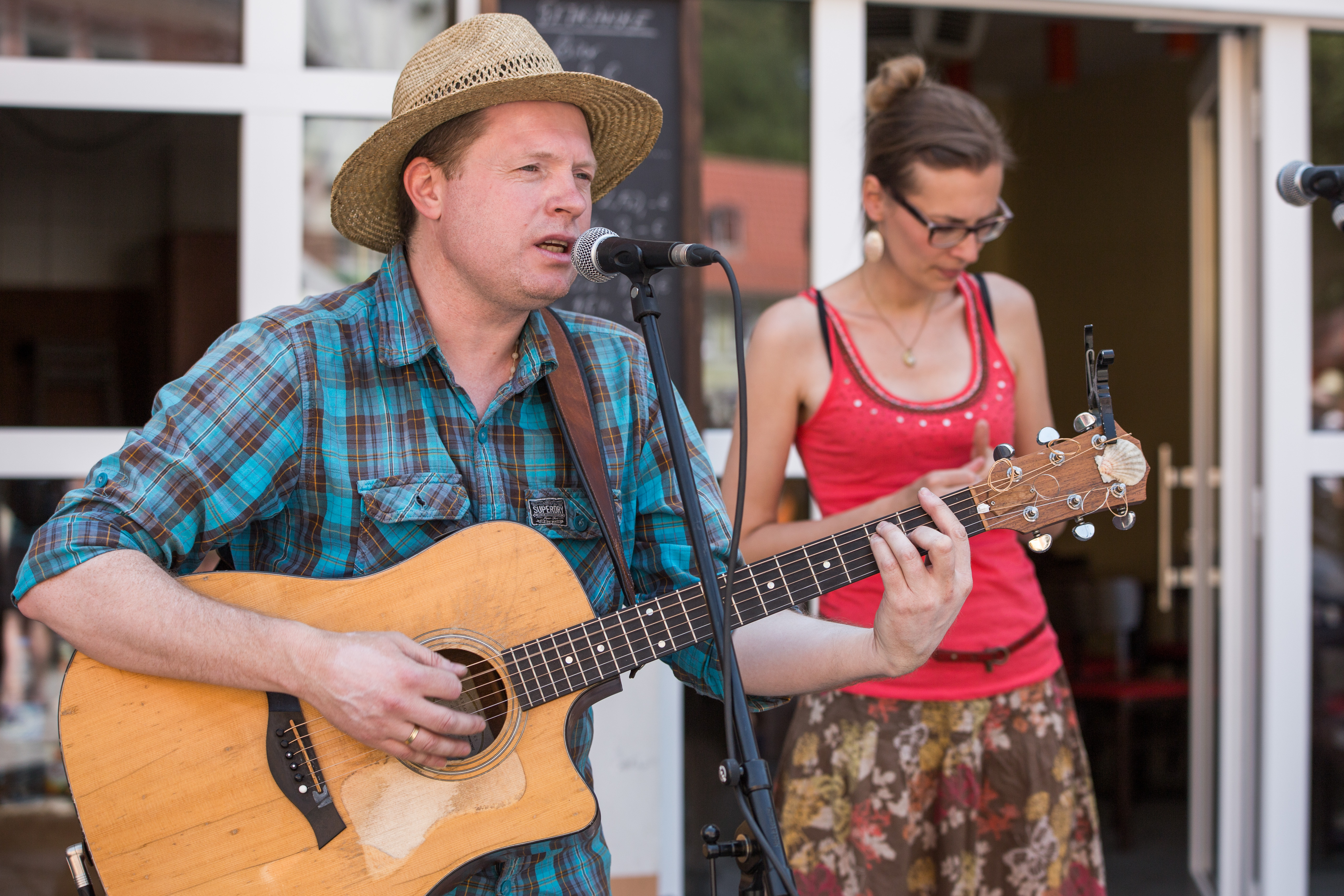 Festivalsommer This photo was created with the support of donations to Wikimedia Deutschland in the context of the CPB project "Festival Summer".